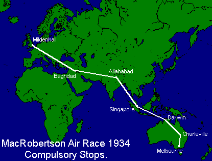 Map of MacRobertson Race (1934).